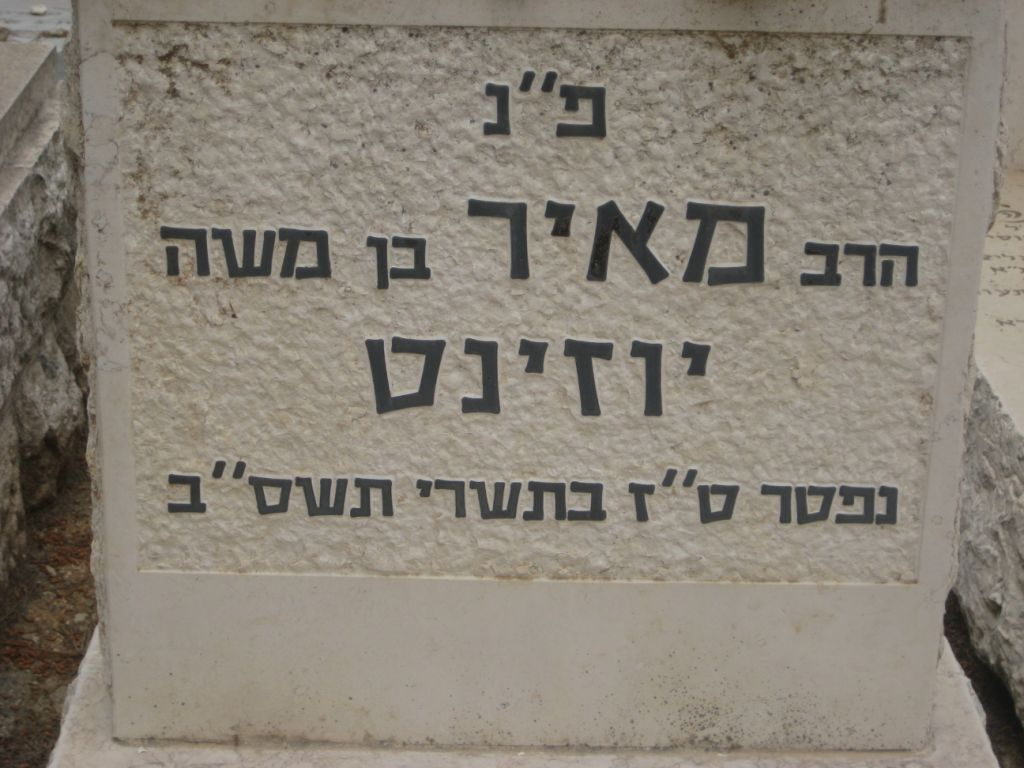 Closeup of Tombstone